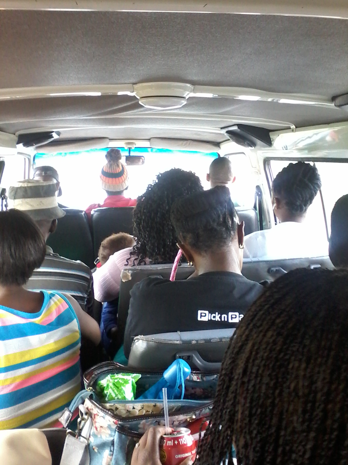 I took this picture while traveling with a taxi somewhere South of Johannesburg